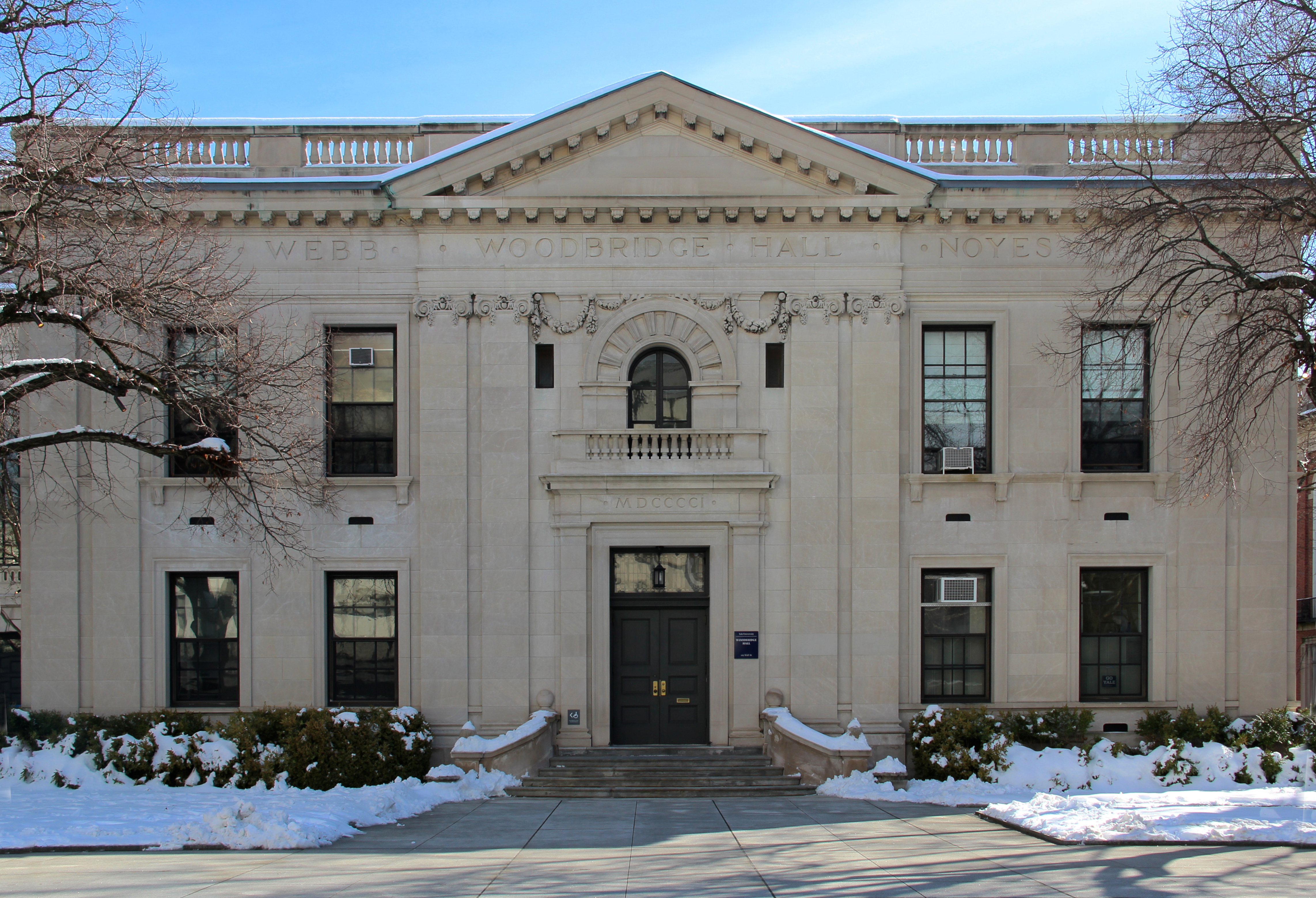 Facade of Woodbridge Hall at Yale University, New Haven, CT